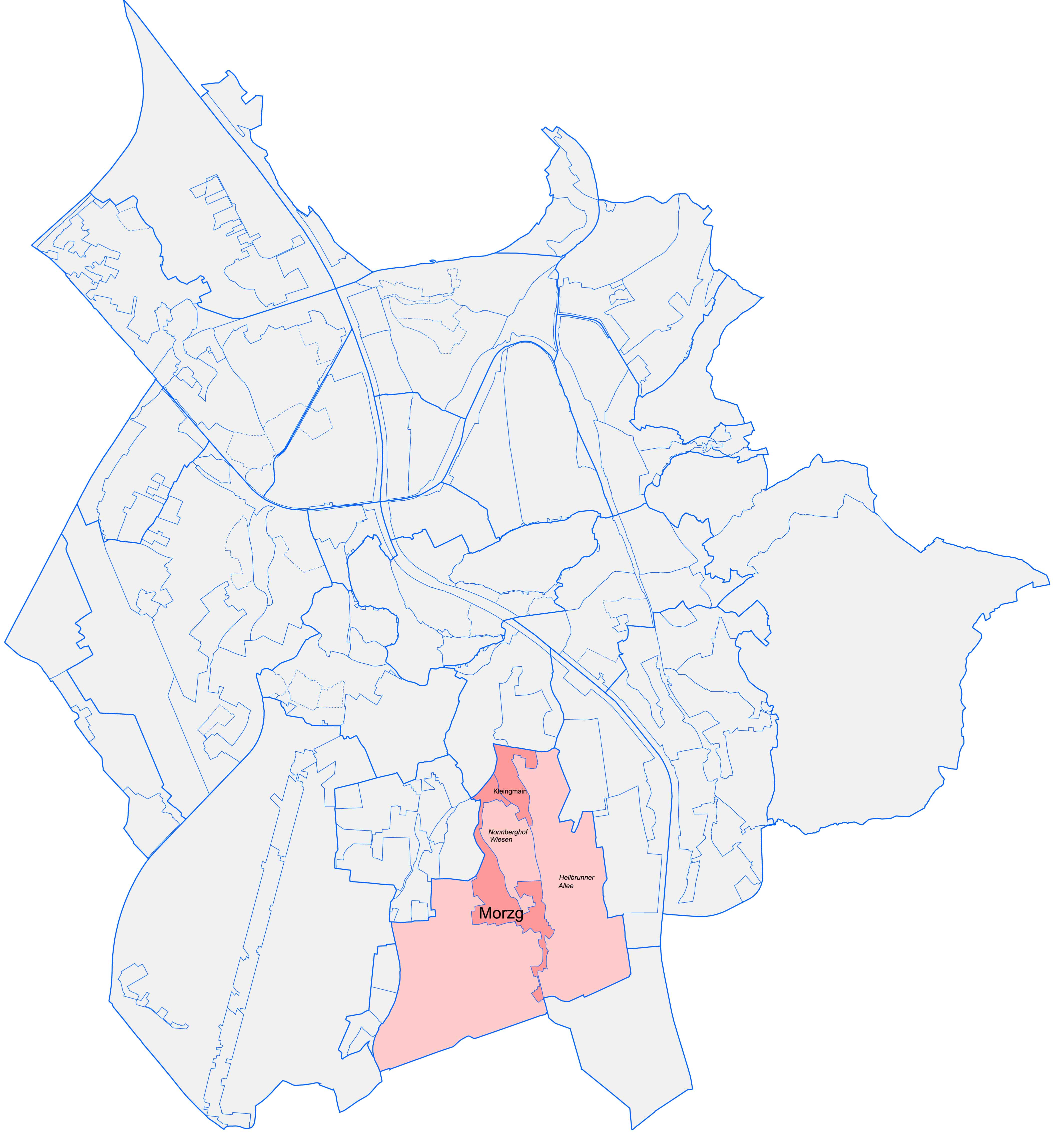 a quarter of the town of Salzburg